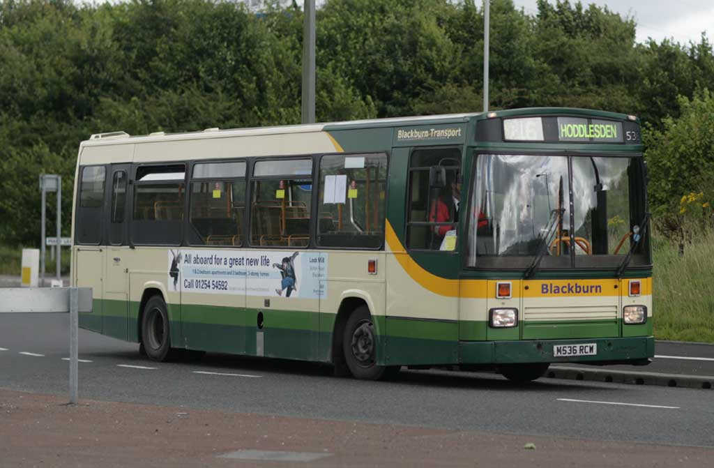 Blackburn Transport bus 536 (reg. M536 RCW), a 1994 Volvo B6R midibus with East Lancs EL2000 bodywork, one of a batch of four purchased new by the company (533-6, M533-6 RCW).